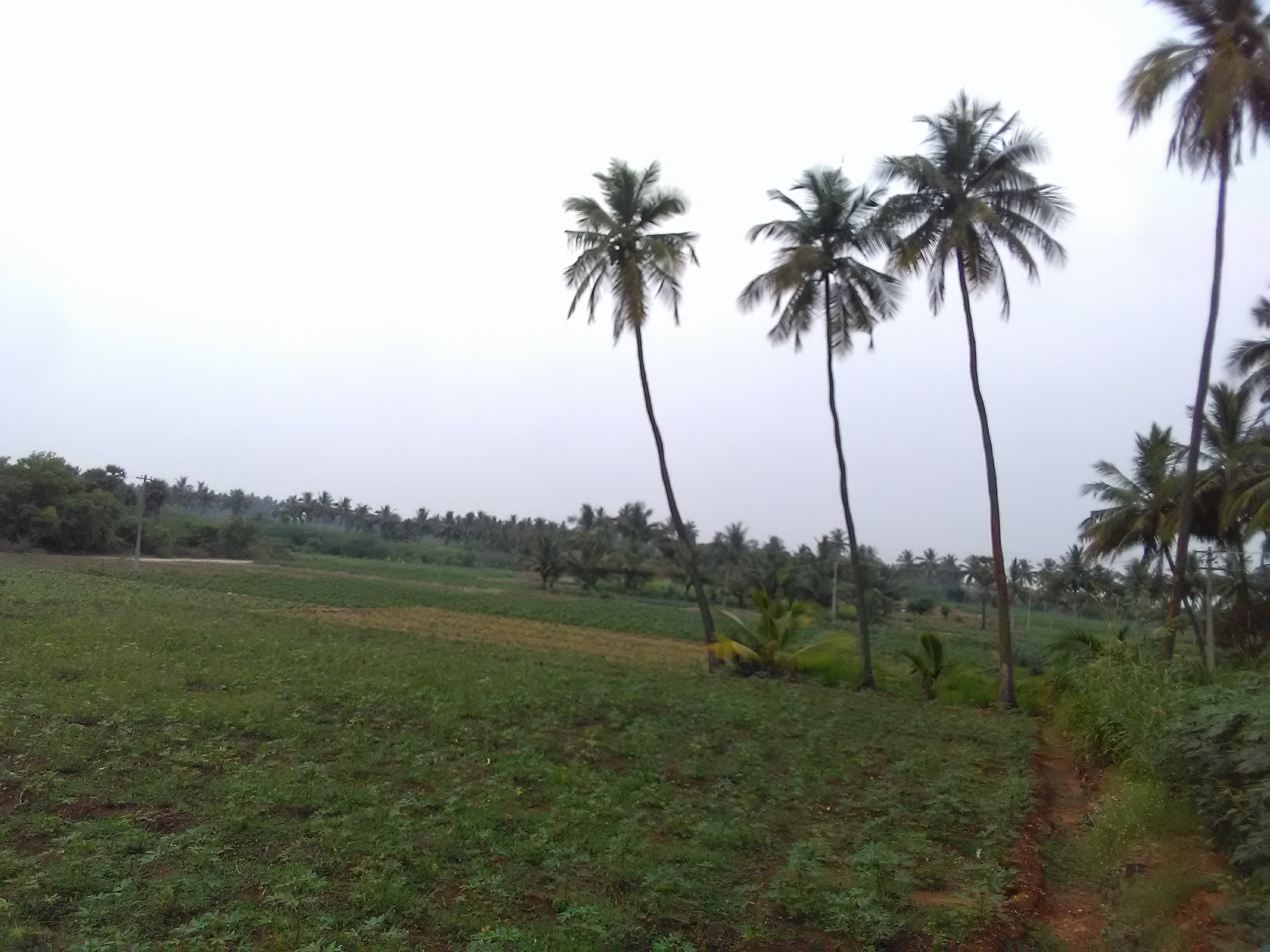 தென்னை விளைநிலம்